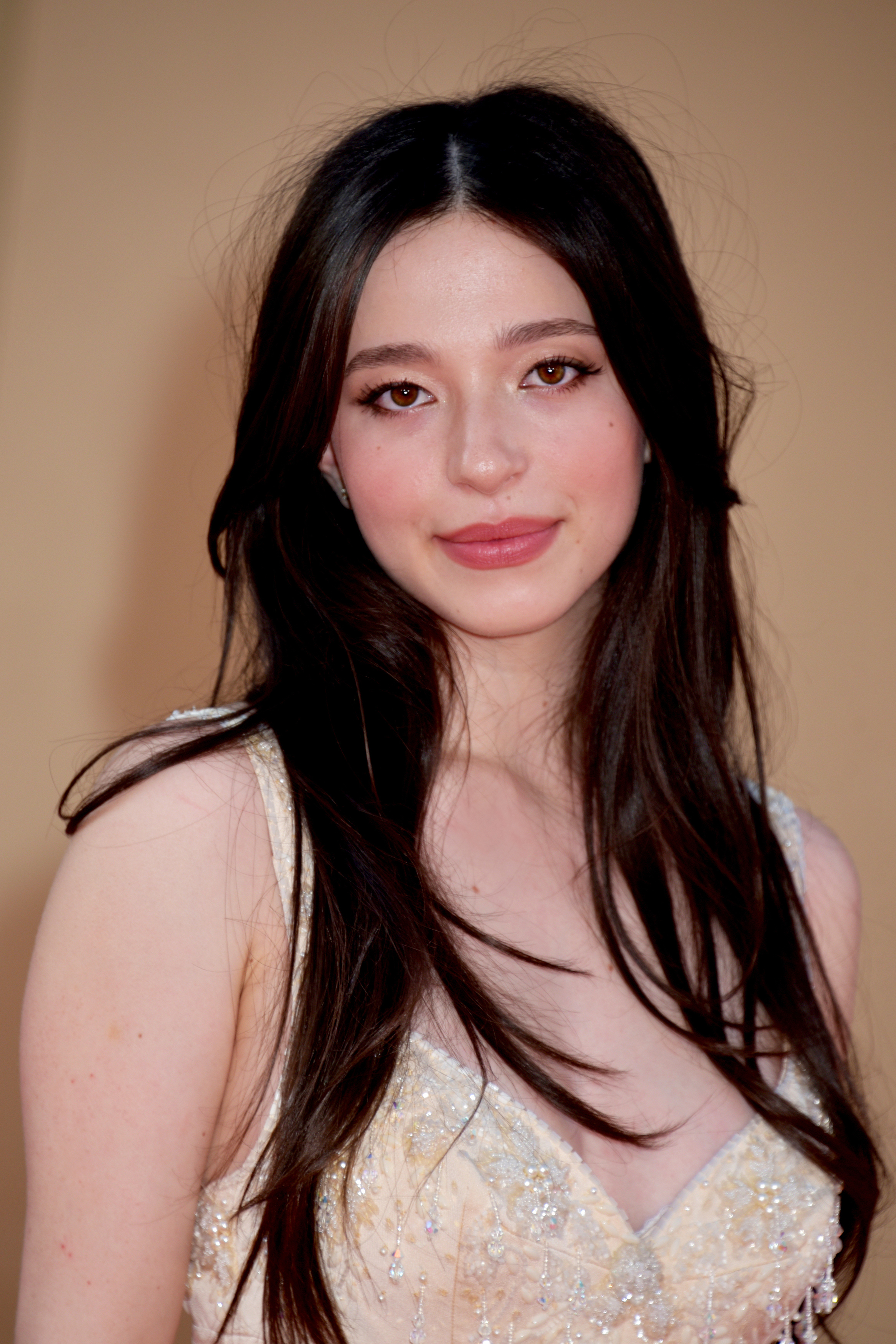 Mikey Madison at the "Once Upon A Time In Hollywood" premiere in Hollywood California on July 22, 2019 - Photo by Glenn Francis of